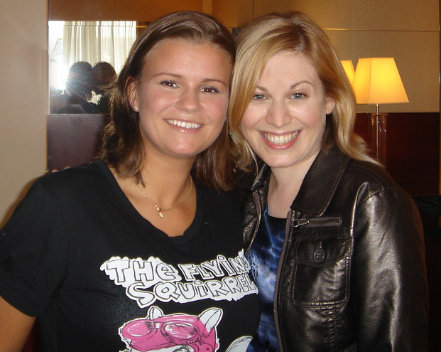 Kerry Katona (left) with Heat! radio disc jockey Rachael Hopper